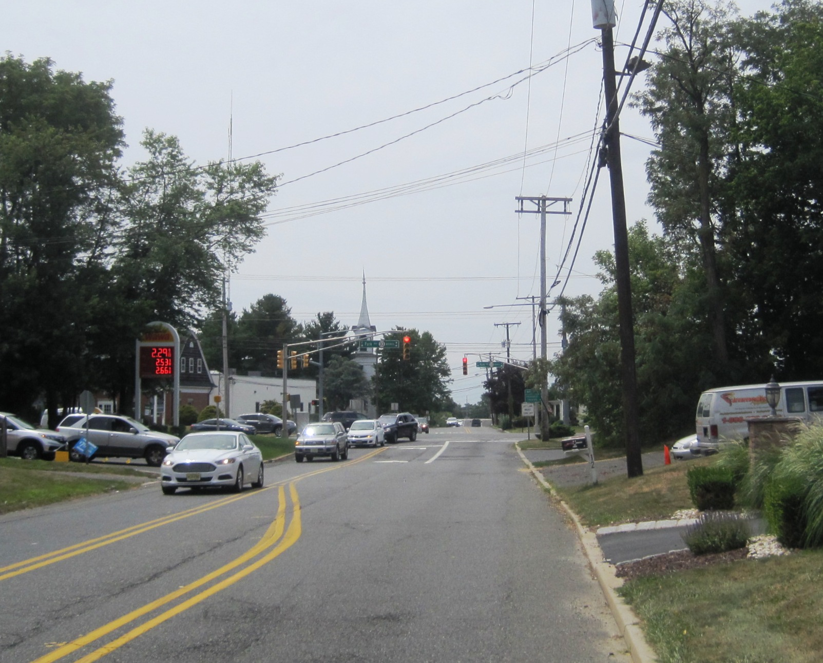 Photo of Jerseyville, New Jersey, an unincorporated community within Howell Township. Photo taken on southbound Five Points Road approaching Park Avenue (New Jersey Route 33 Business).